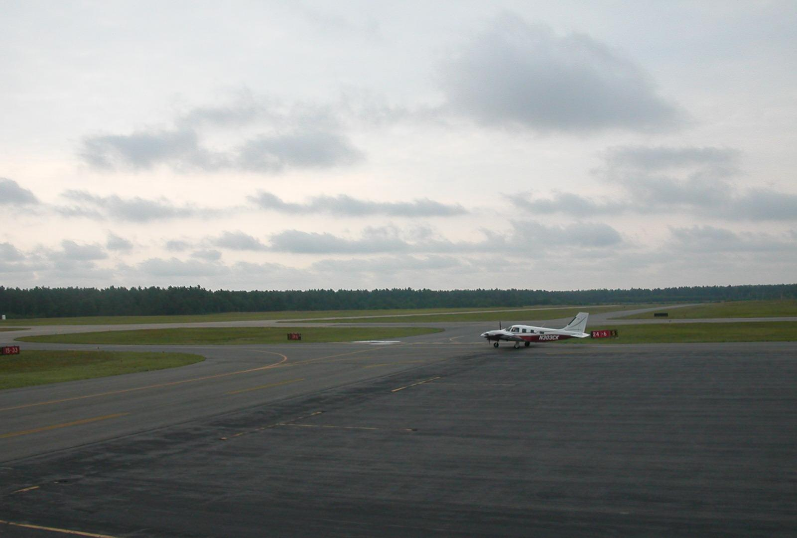 Plymouth Municiapl Airport in Western Plymouth, Massachusetts